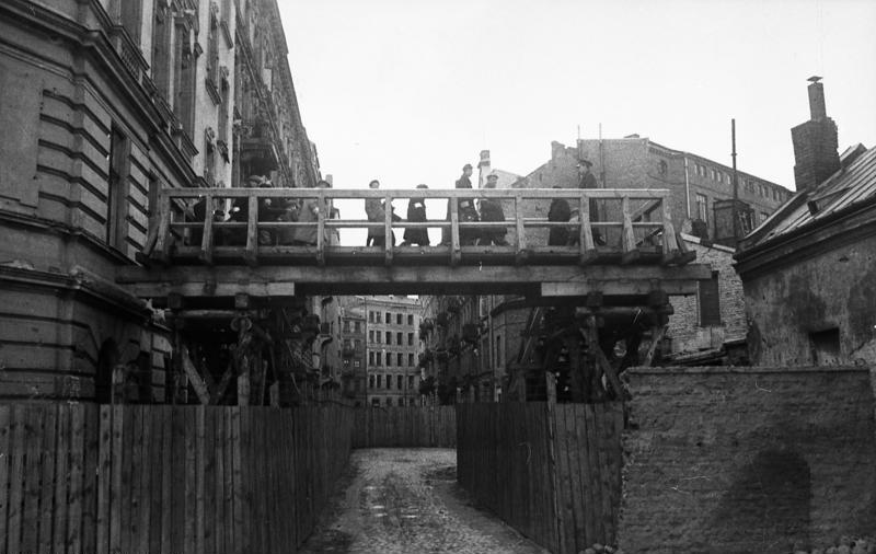 Warsaw Ghetto: View on Przebieg Street with small wooden bridge above it, as seen from Bonifraterska street looking towards Muranowska street. On the left Bonifraterska 27. In the back a building Muranowska 7 on Muranowski Square.